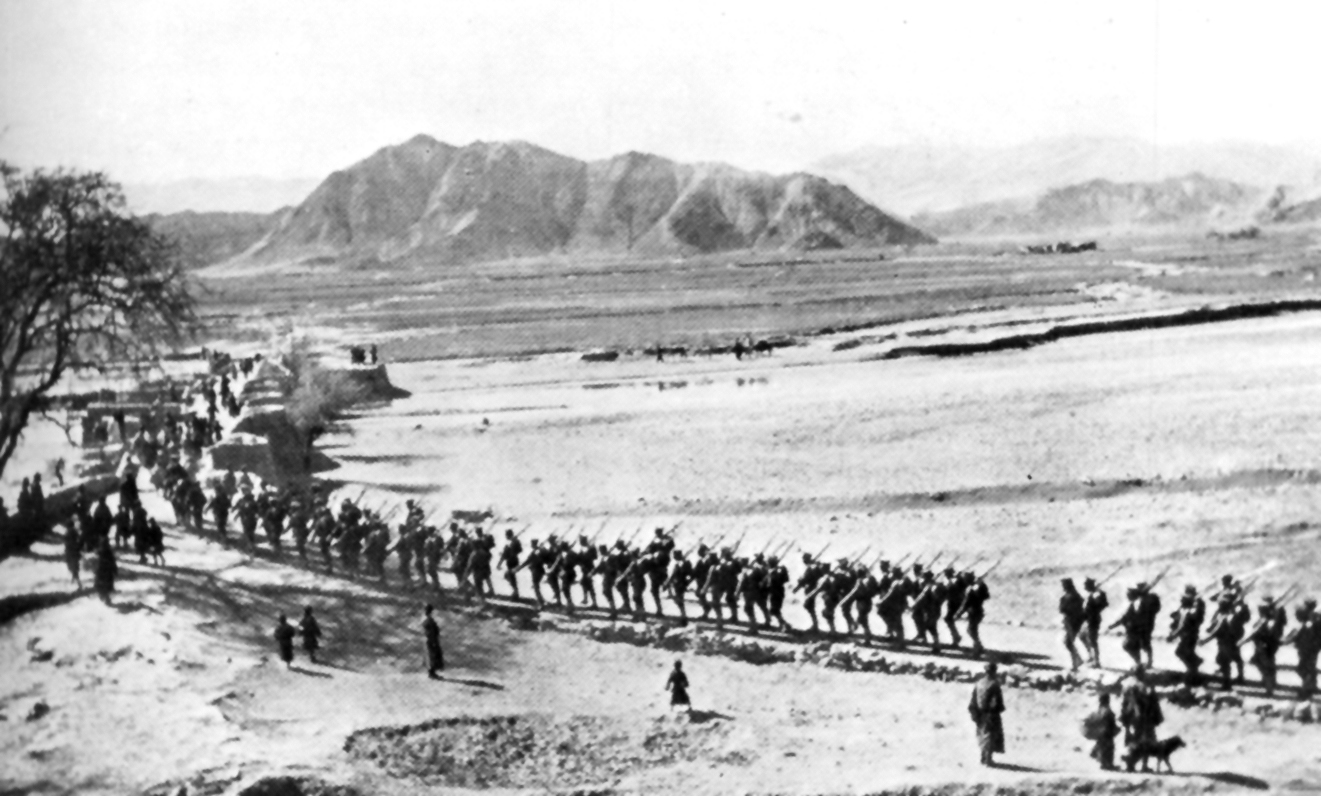 Chinese soldiers leaving Lhasa in 1912, by order of the Tibetan government on 8 July 1949.